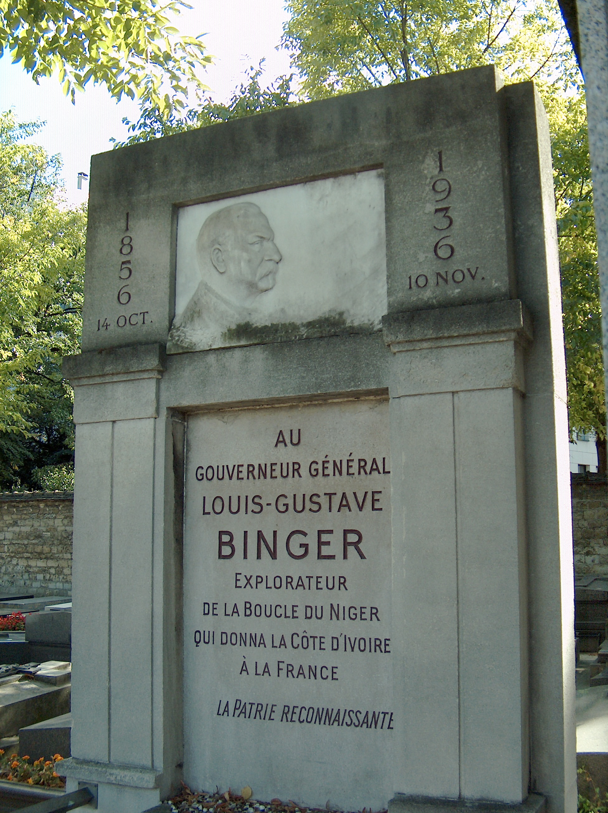 Louis-Gustave Binger (1856-1936) French military and explorer.